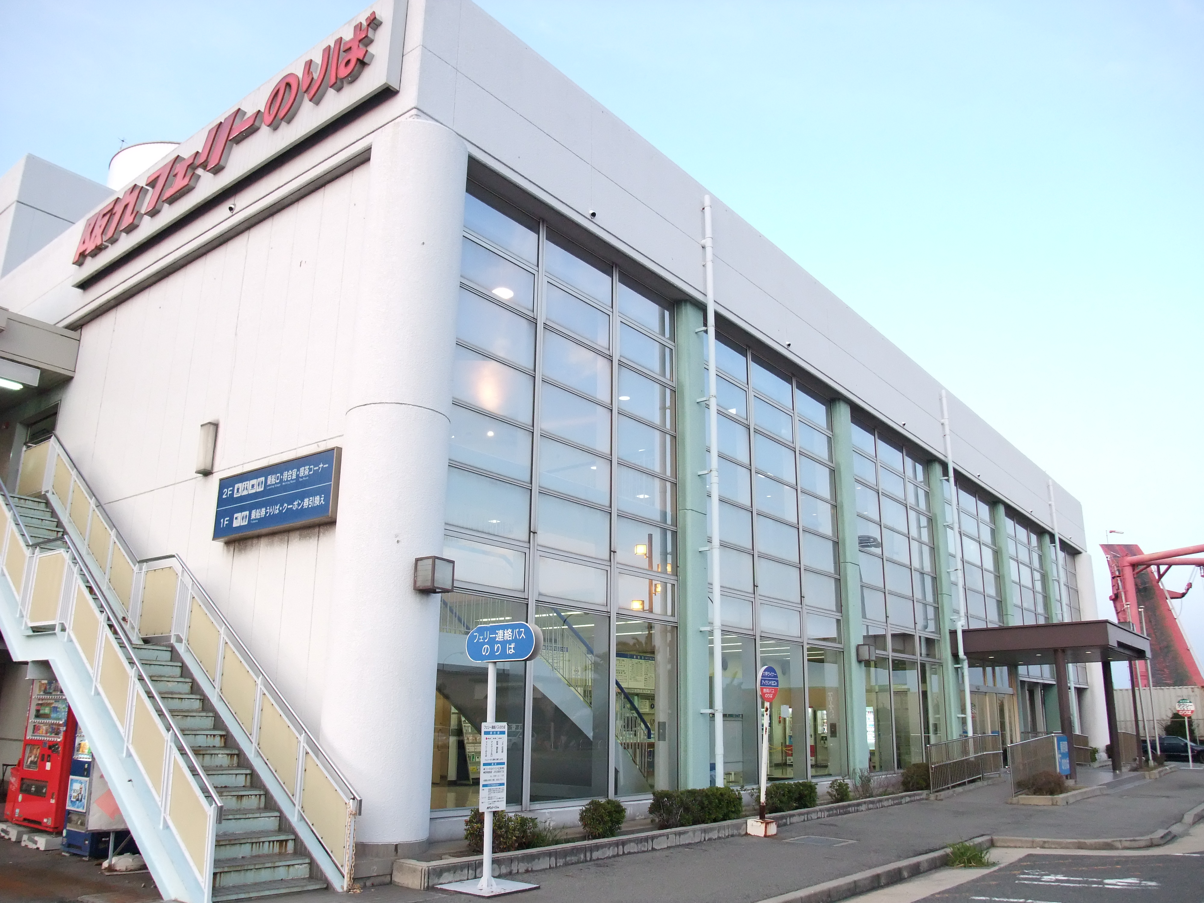 Hankyu Ferry Terminal"Kobe Terminal"(kobe,Hyogo prefecture,Japan)